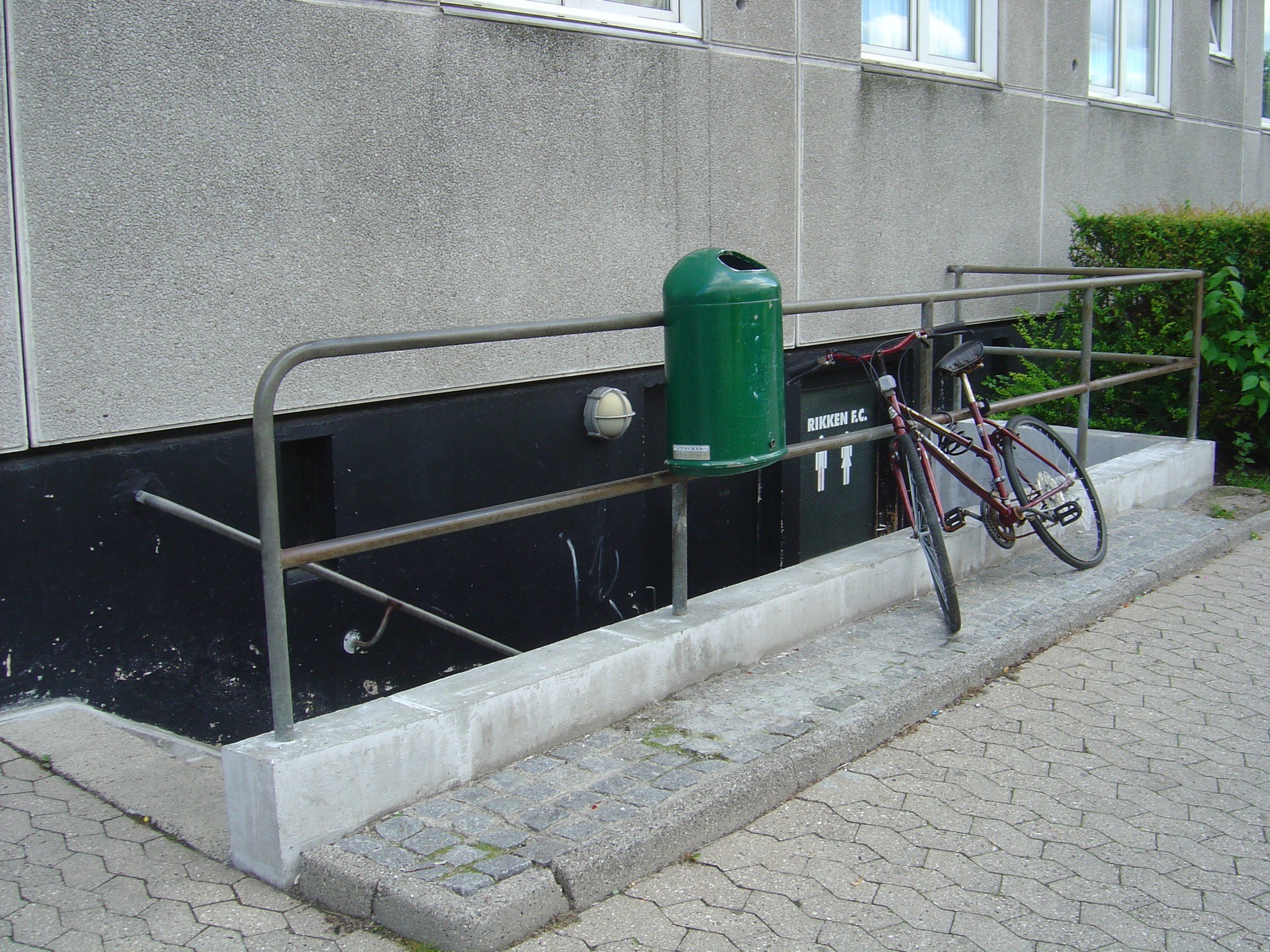 Rikken Fodbold Club - the club room for a Danish association football club located in a basement on Vigerslev Vænge 50 in Valby, Copenhagen. Seen from the east side.